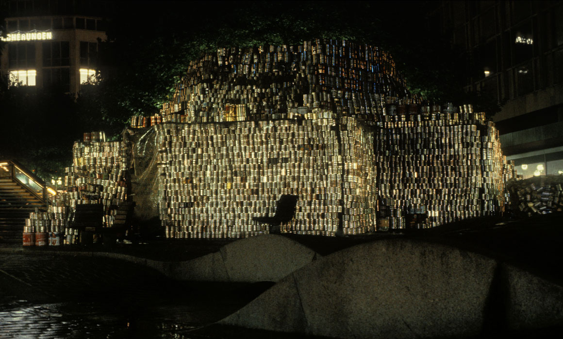 Scan from 2009 taken form a photograph I made 1982 in Hamburg, Germany. It shows the "Cerro Rico Aktion", a public installation I made in September at Gerhart-Hauptmann-Platz in the centre of Hamburg. I did this installation with 100.000 tin cans in cooperation with terre des hommes (Germany). This public installation in cooperation with terre des hommes (Germany) referred to the history of the Cerro Rico, famous mountain in Potosi, Bolivia. The Wiki license is only for the new scan with resolution 1160x700 px.